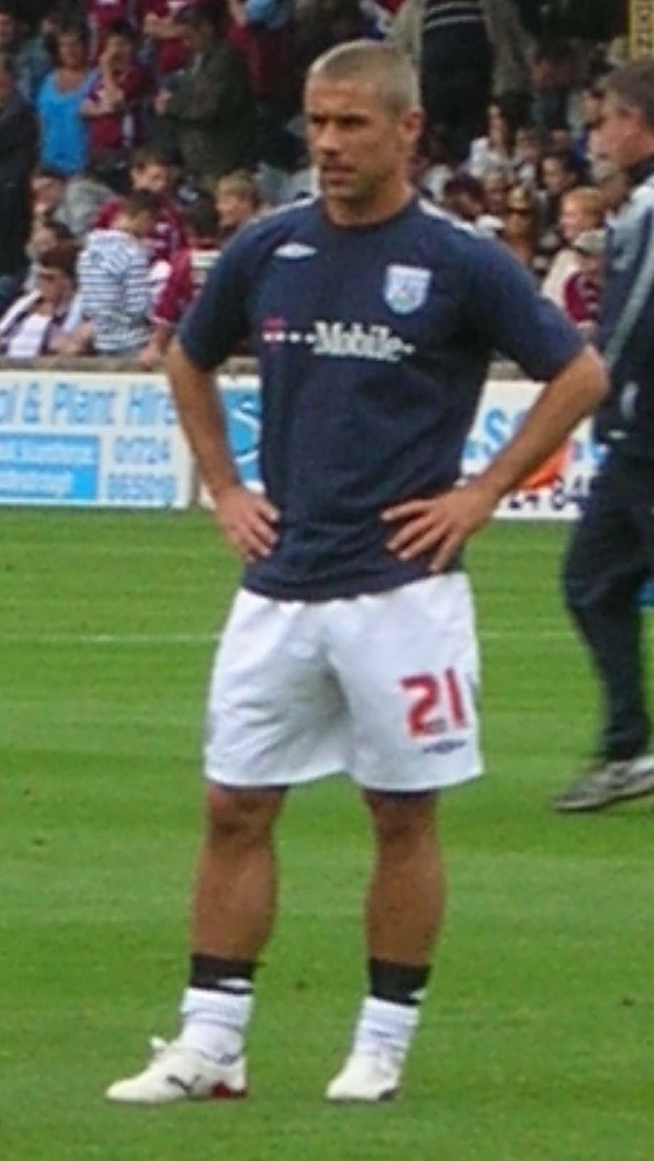 English football (soccer) striker Kevin Phillips of West Bromwich Albion, warming up prior to a match against Scunthorpe United at Glanford Park on 2007-09-22